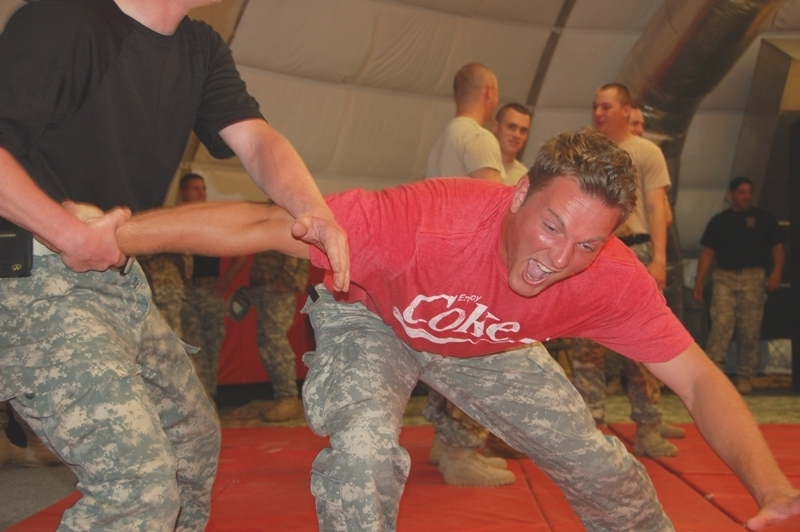 Indianapolis Colts punter, Pat McAfee, receives some hands on non-lethal combative training during a visit to Camp Atterbury July 24. McAfee spent the entire day with military members assigned to the base thanks to the coordination efforts of Jeff Wells of Wishes for Our Heroes, a local non-profit organization providing support to services members and their families. McAfee and Wishes four our Heroes representatives had the opportunity learn more about the unique training activities on the base including simulated combat medical training, weapons familiarization, lunch with troops and employees and the opportunity to take a short ride on post in an up-armored Mine Resistant Ambush Protected or MRAP.